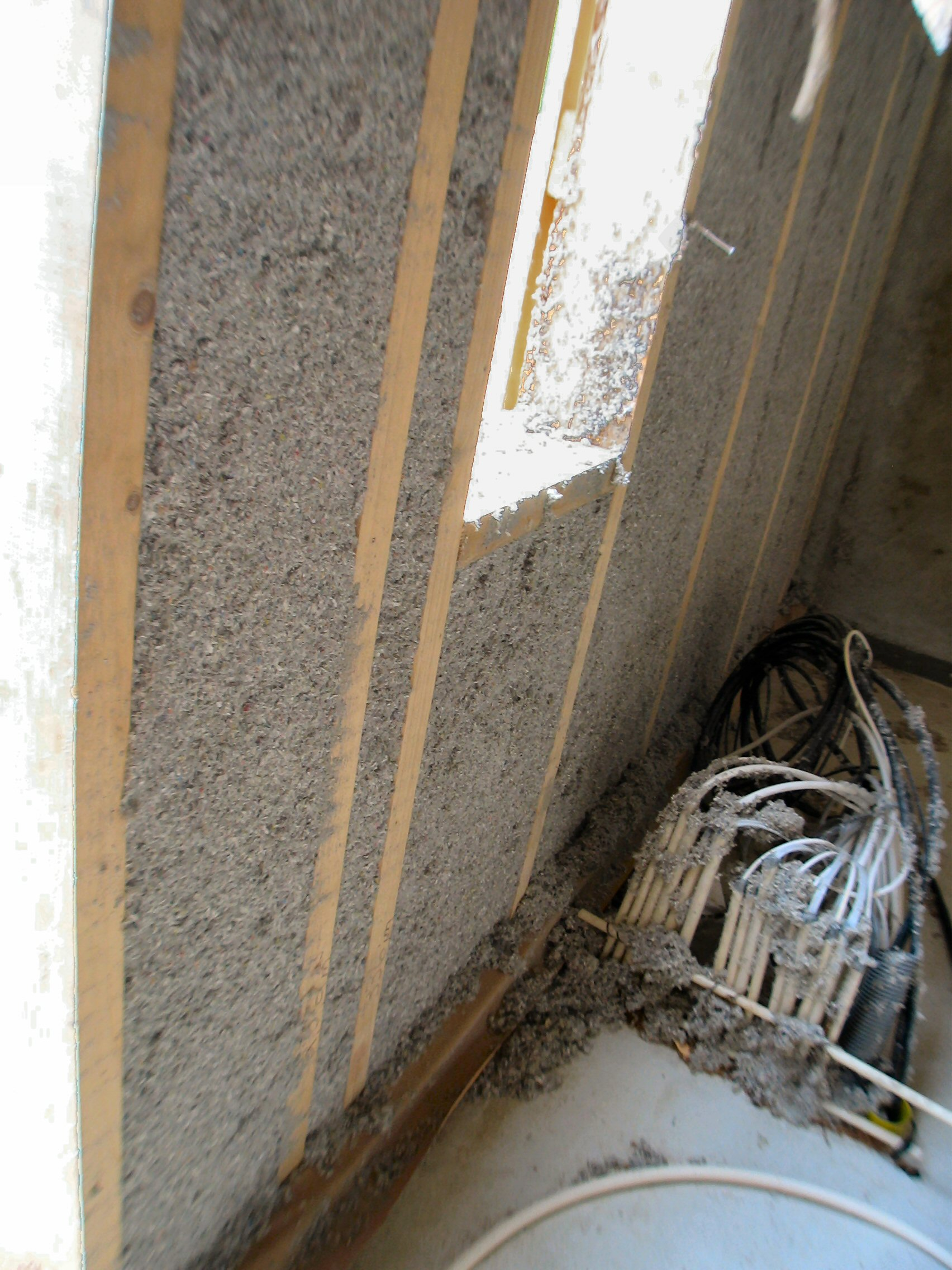 Sprayed, paper-based thermal insulation on wooden framework